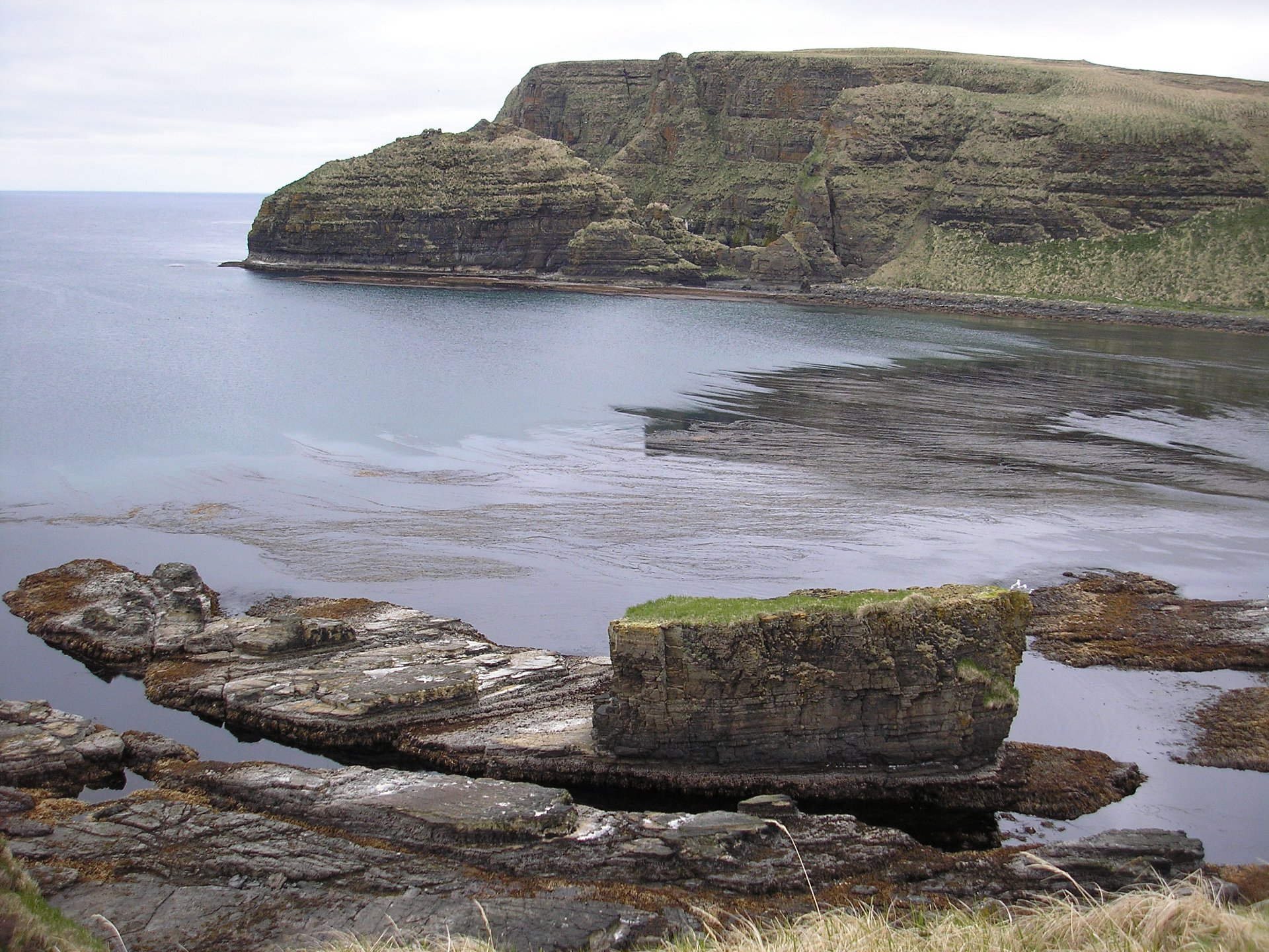 Agattu Island by Karen Laing/USFWS.